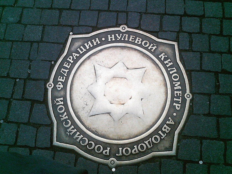 "0" kilometer point Moscow Russia